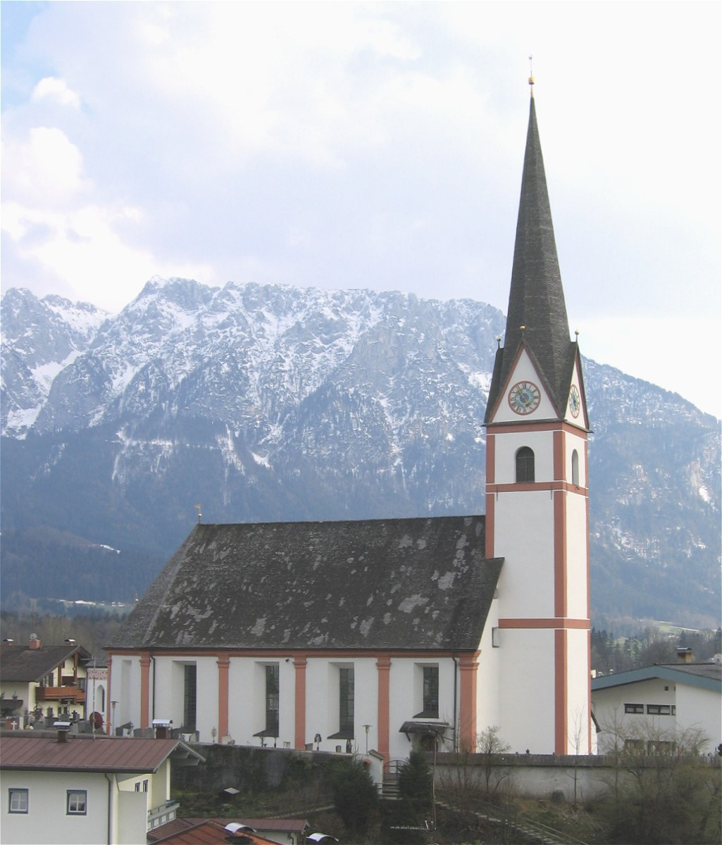 Niederndorf (Austria), St George's Parish Church from north-west.